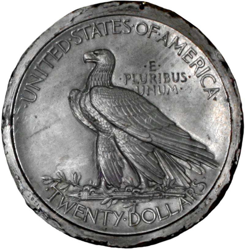 Metal "sketch" by Augustus Saint-Gaudens of an early version of the double eagle design, later adapted for the eagle.